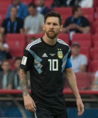 Lionel Messi with Argentina against Iceland in the 2018 FIFA World Cup